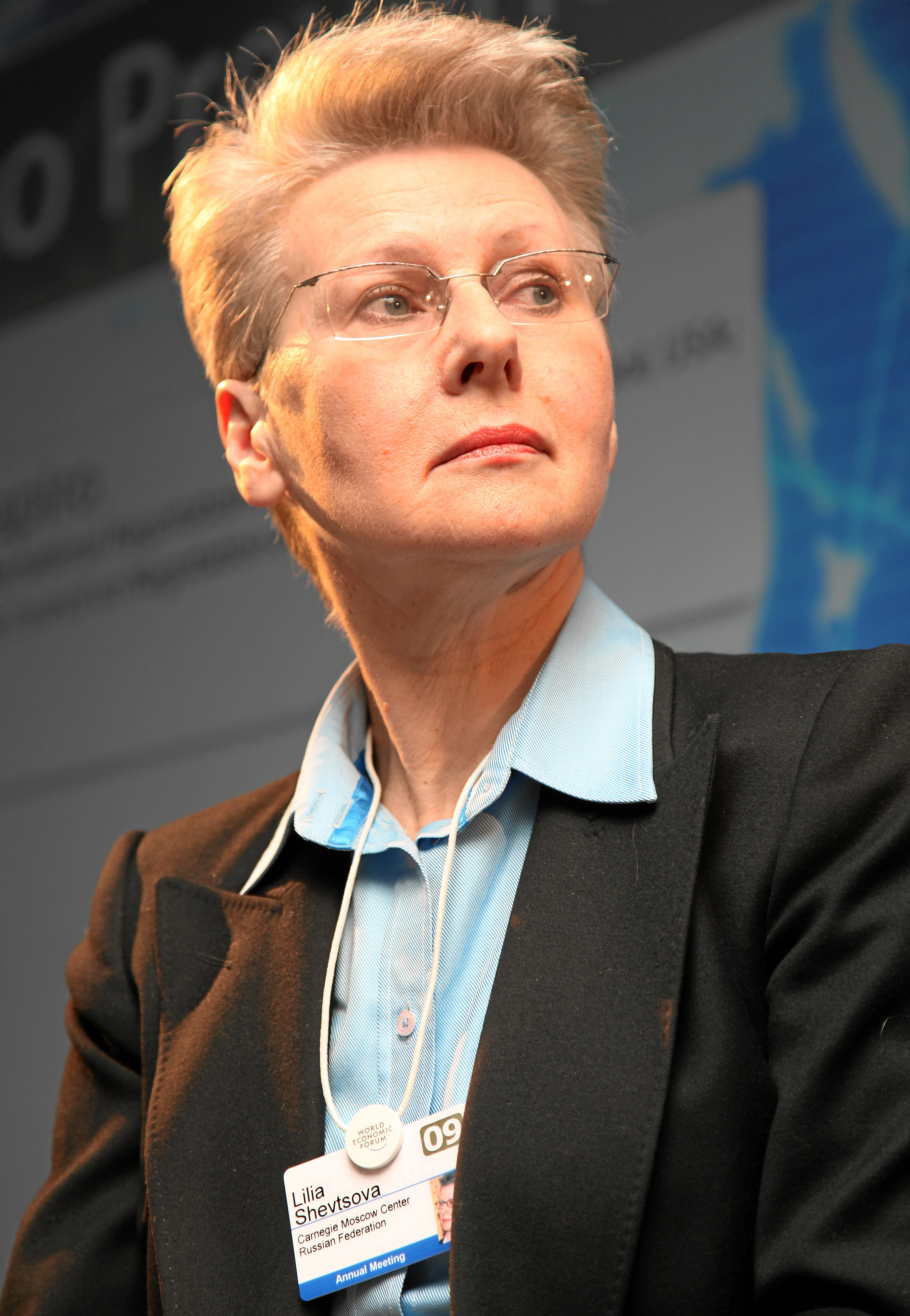 Lilia Shevtsova, Senior Associate, Carnegie Endowment for International Peace, Carnegie Moscow Center, Russian Federation; Chair, Global Agenda Council on the Future of Russia, captured during the session 'Update 2009: Crises to Prevent at All Costs' at the Annual Meeting 2009 of the World Economic Forum in Davos, Switzerland, January 28, 2009. Copyright by World Economic Forum by Monika Flueckiger